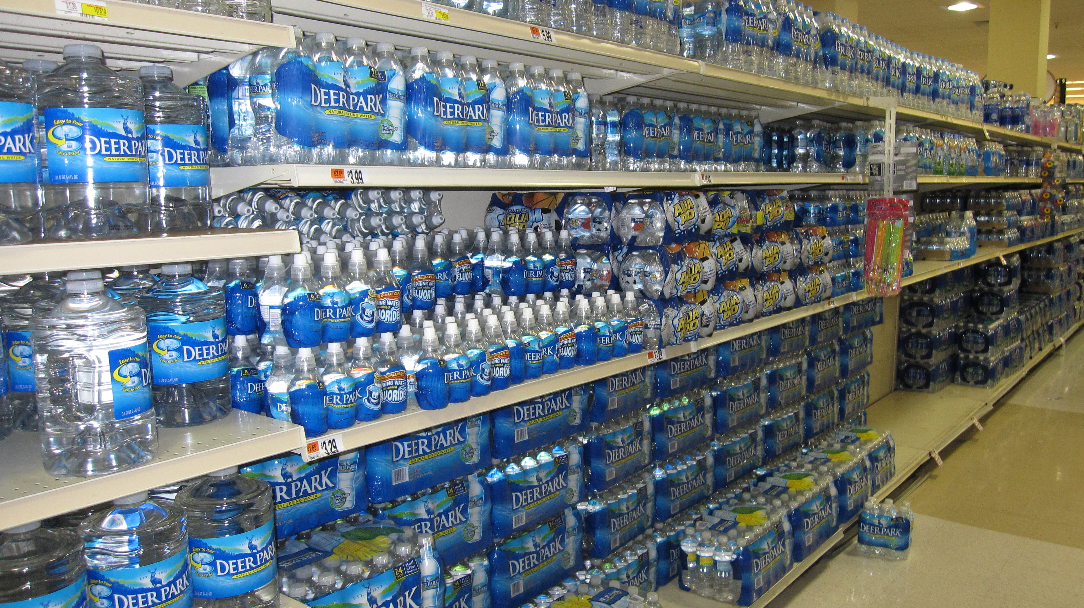 Bottled water fills an aisle in a supermarket